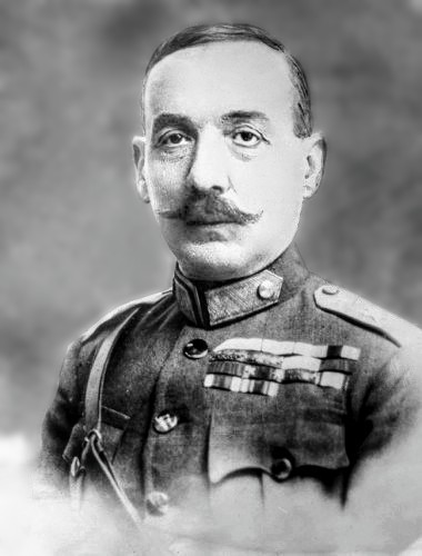 Greek general and dictator Theodoros Pangalos, photo portrait (early 1920s)